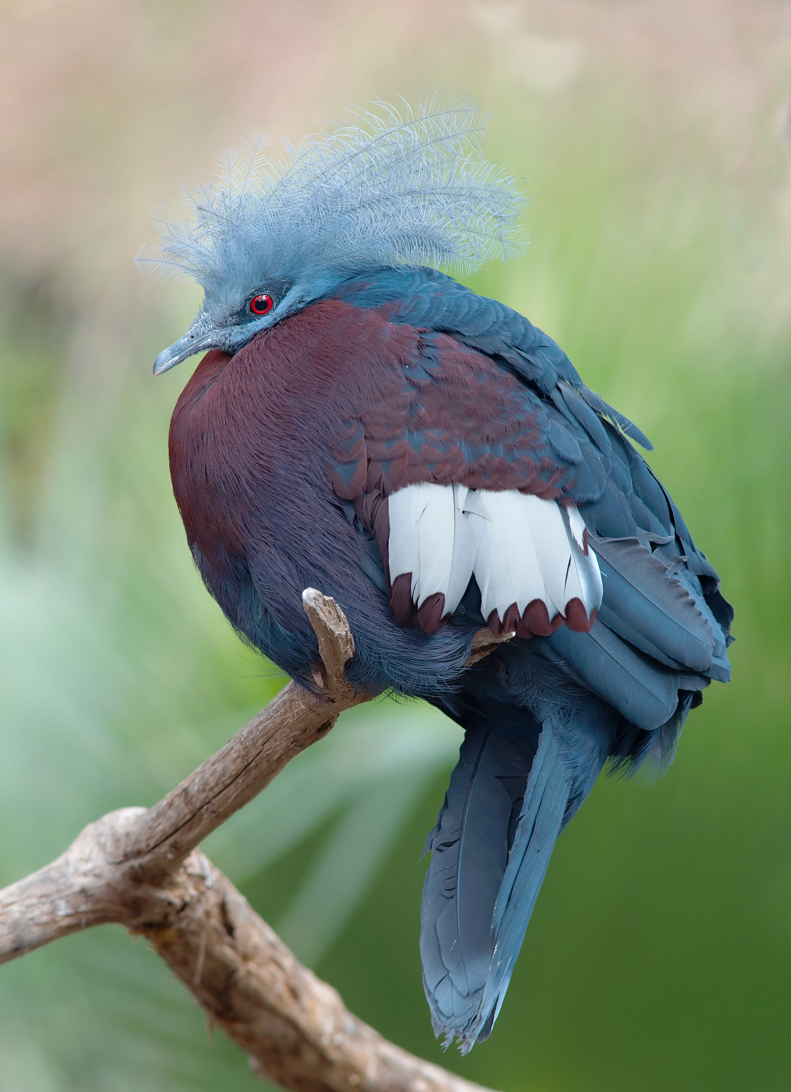 Goura scheepmakeri Southern Crowned Pigeon Remark:The Southern Crowned Pigeon was split into two species, this is Sclater's Crowned Pigeon (Goura sclaterii)